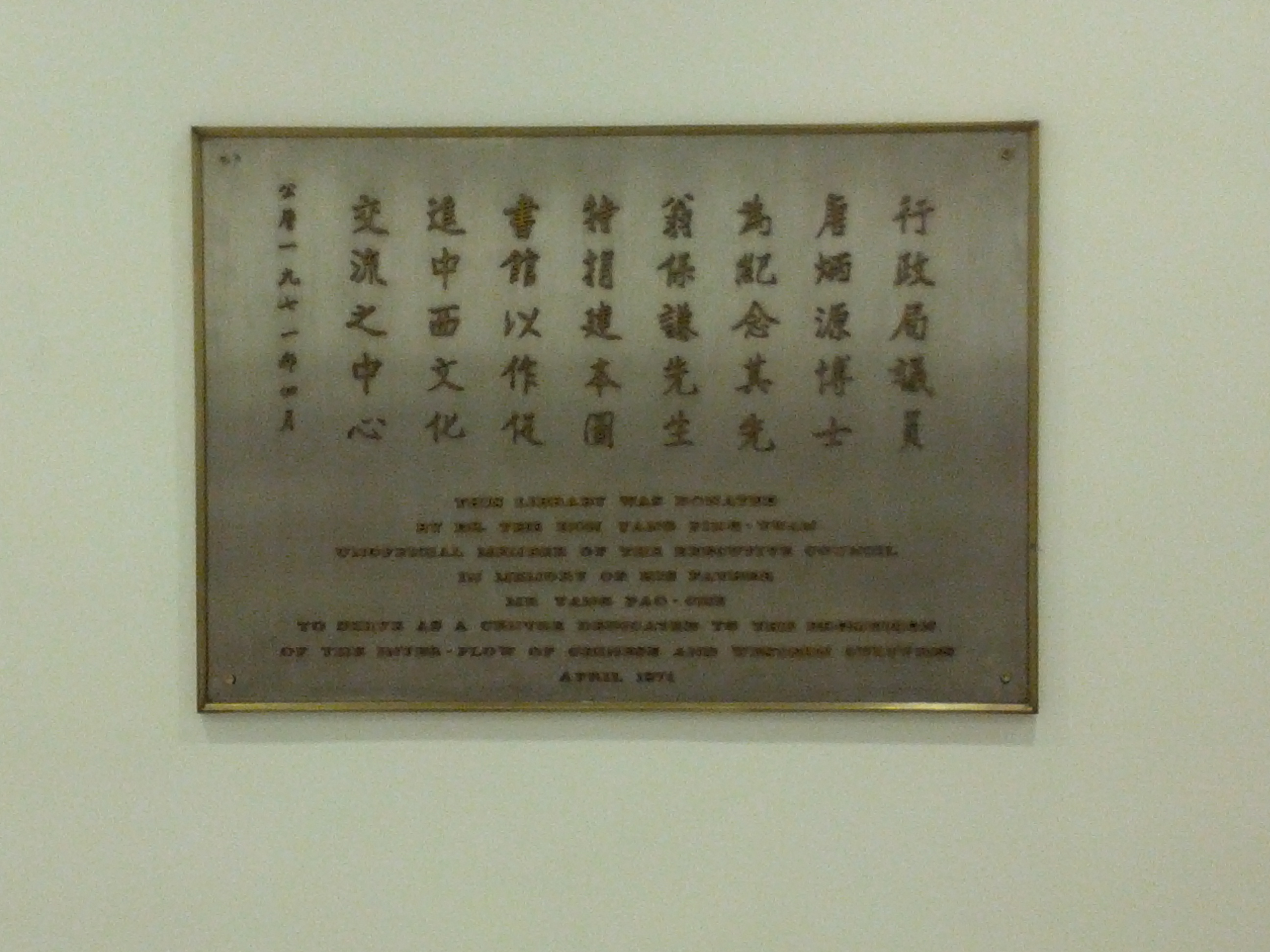 The plaque installed in April 1971 commemorating the donation of the University Library building of the Chinese University of Hong Kong by Dr. the Hon. TANG Ping-yuan, an unofficial member of the Executive Council, in memory of his late father.